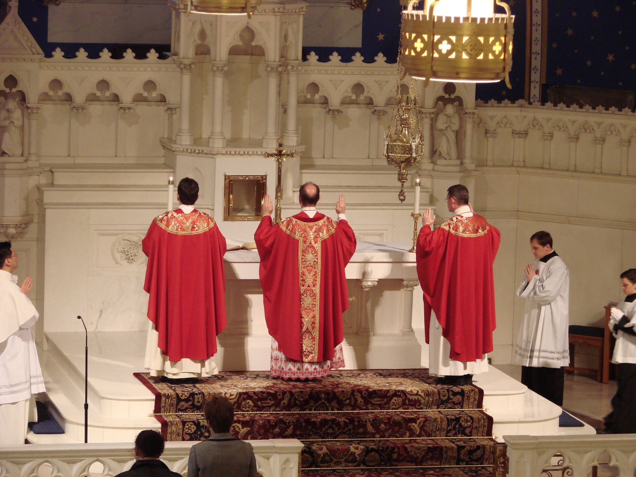 Good Friday, Our Lady of Lourdes, Philadelphia